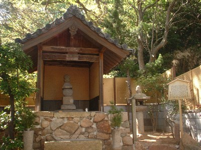 The tomb of Taira no Atsumori at Sumadera temple in Kōbe, Hyōgo prefecture